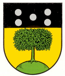 Coat of arms of Hermersberg